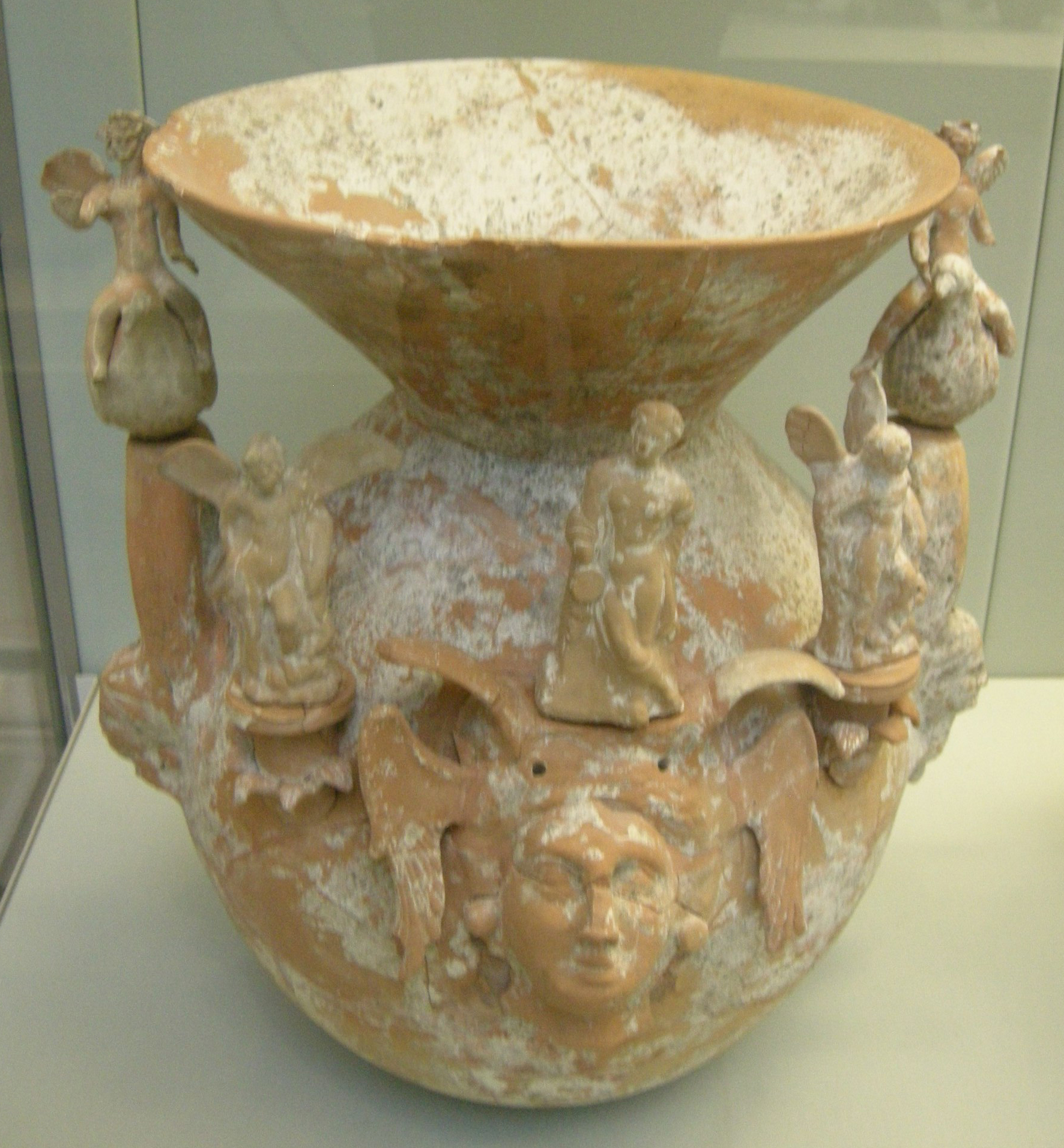 Terracotta olla decorated with various figures, including a winged woman's head, a man holding a mirror, and four erotes.